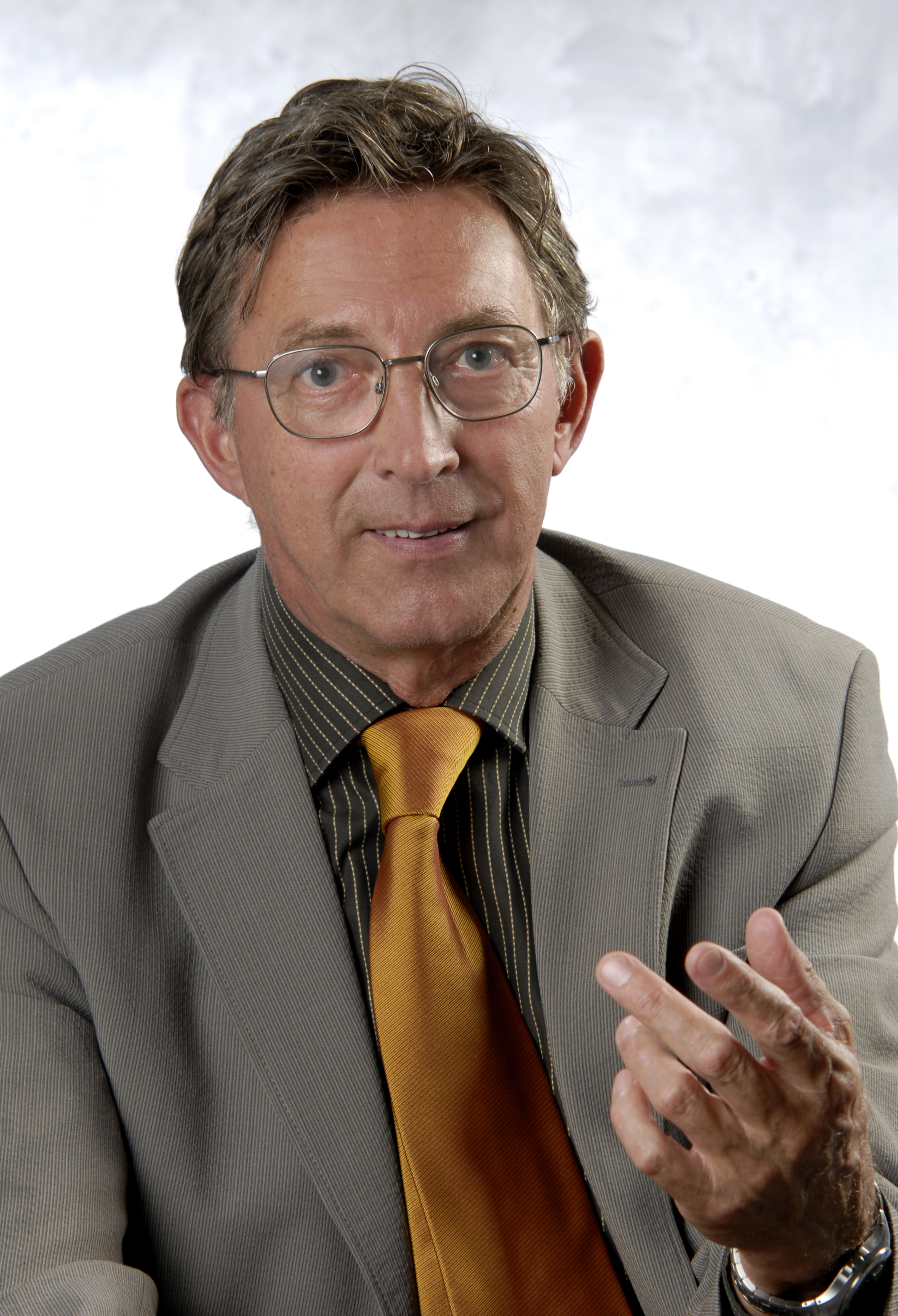 Viljem Ščuka (William Pike), Slovenian well-known physician, school medicine specialist and psychotherapist, gestaltist, * 7 June 1938, Dutovlje, Slovenia.